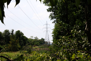 High voltage transmission lines cut across the core battlefield land at Chusto-Talasah, as seen in this July 2011 photograph. The Battle of Chusto-Talasah occurred on December 9, 1861 near Sperry, Oklahoma. (Photo by Jeffrey S. Williams)